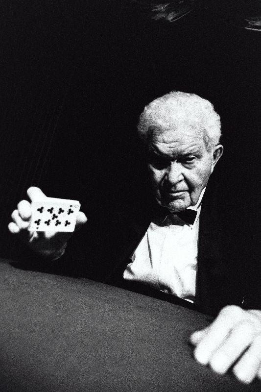 Jerry Andrus performs magic at the Magic Castle in Hollywood, California